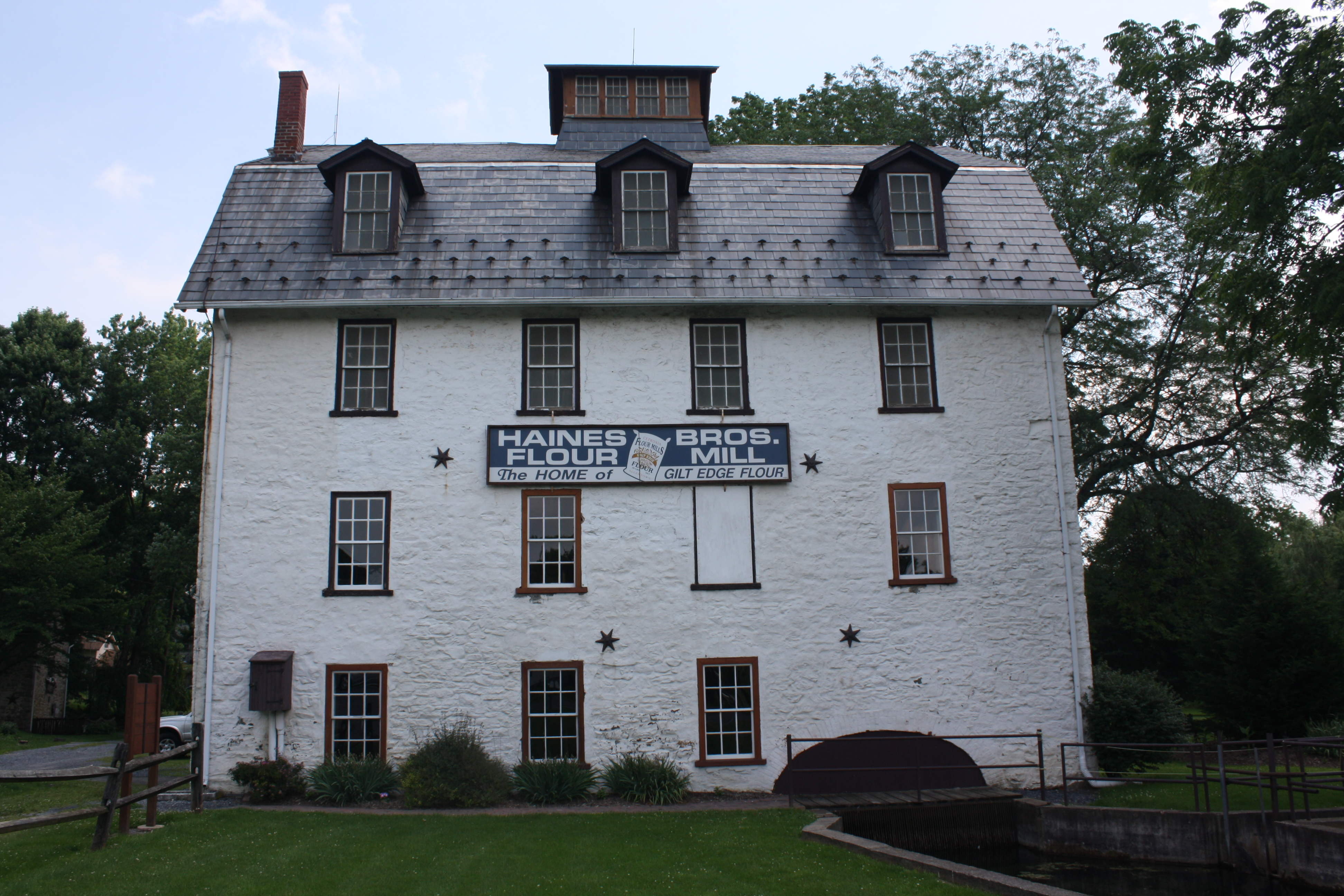 Haines Mill is a historic grist mill located at South Whitehall Township, Lehigh County, Pennsylvania. It was built about 1840. Now it is Haines Mill Museum and surrounded with the park.